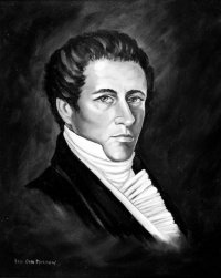 James Sevier Conway portrait [1]